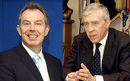 Tony Blair, cropped from Image:2005 03 01 rice blair 600.jpg. British Foreign Secretary Jack Straw meets with Secretary of Defense Donald H. Rumsfeld in the Pentagon. A number of bilateral security issues were discussed. Straw and United Kingdom Ambassador to the United States Sir David Manning represented Britain.